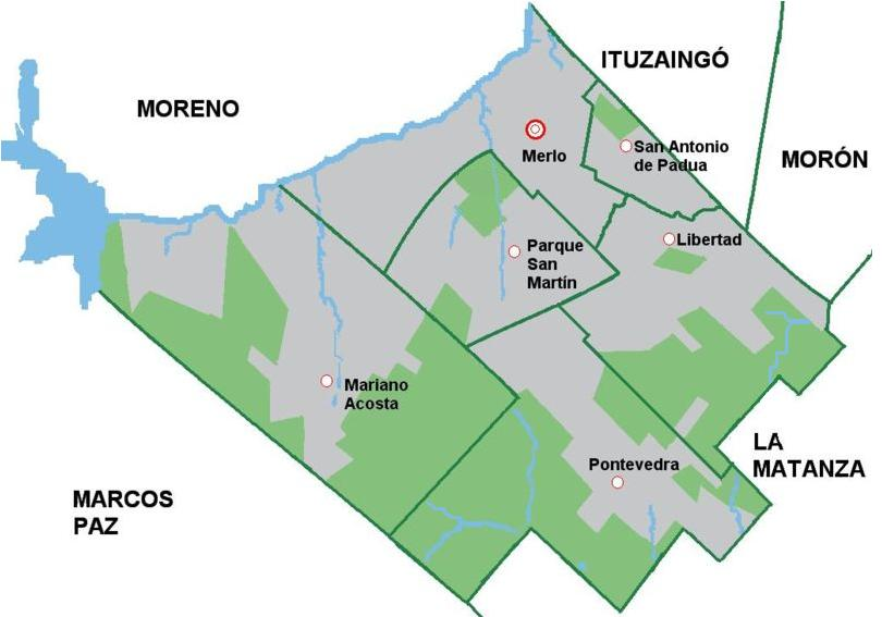 This is the map of Merlo, Buenos Aires, Argentina.